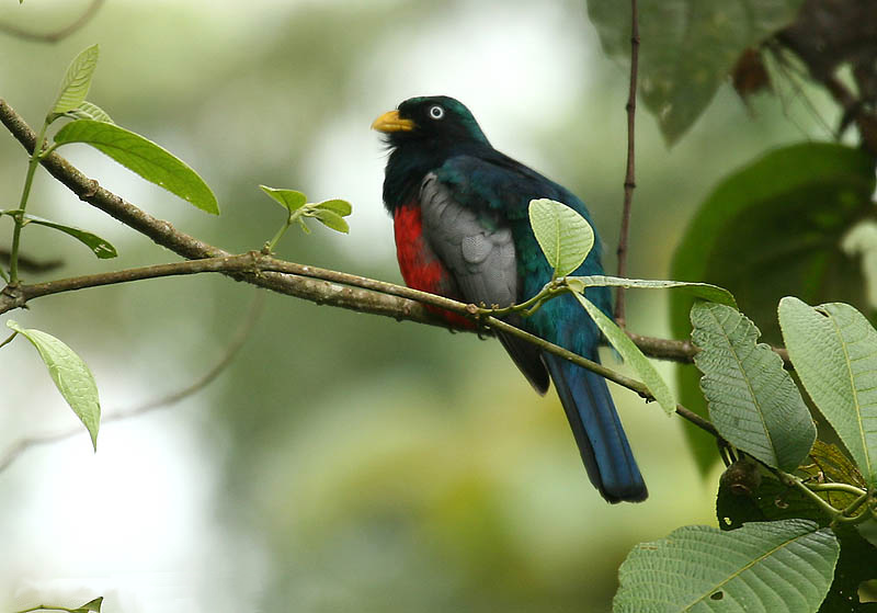 White-eyed Trogon (Trogon comptus) also known as the Chocó Trogon. A male at Rio Silanche (PVM), NW Ecuador.